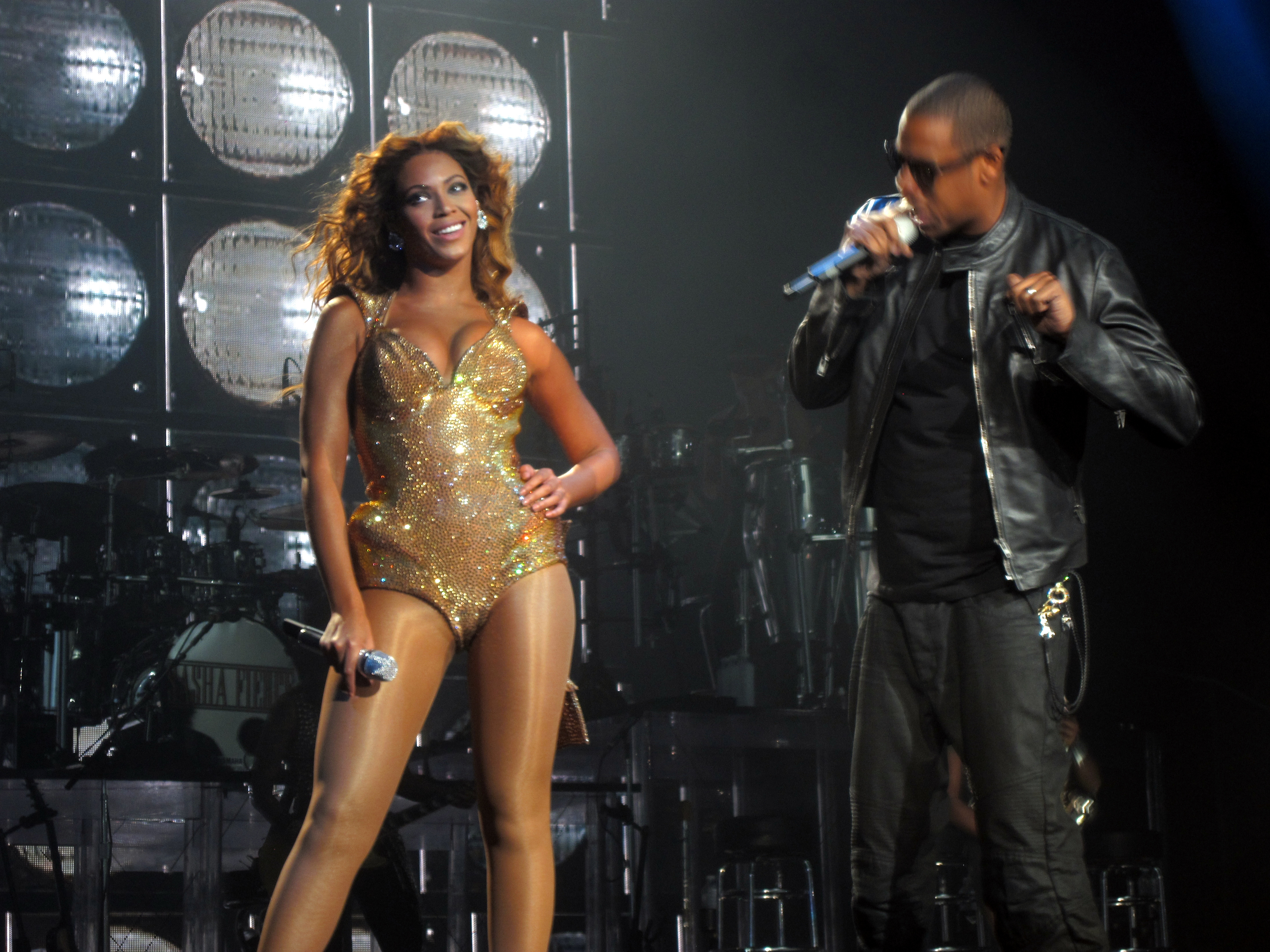 Beyoncé performing on The O2 in London.